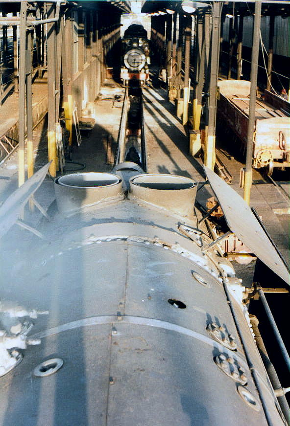 Double side by side chimneys and extended exhaust deflectors on SAR Class 25NC 3454 (4-8-4) Builder's Number: NBL 27314 Type: Non condensing Location: Kimberley, Northern Cape Reclassification: From Class 25 (condensing) to Class 25NC (non condensing)